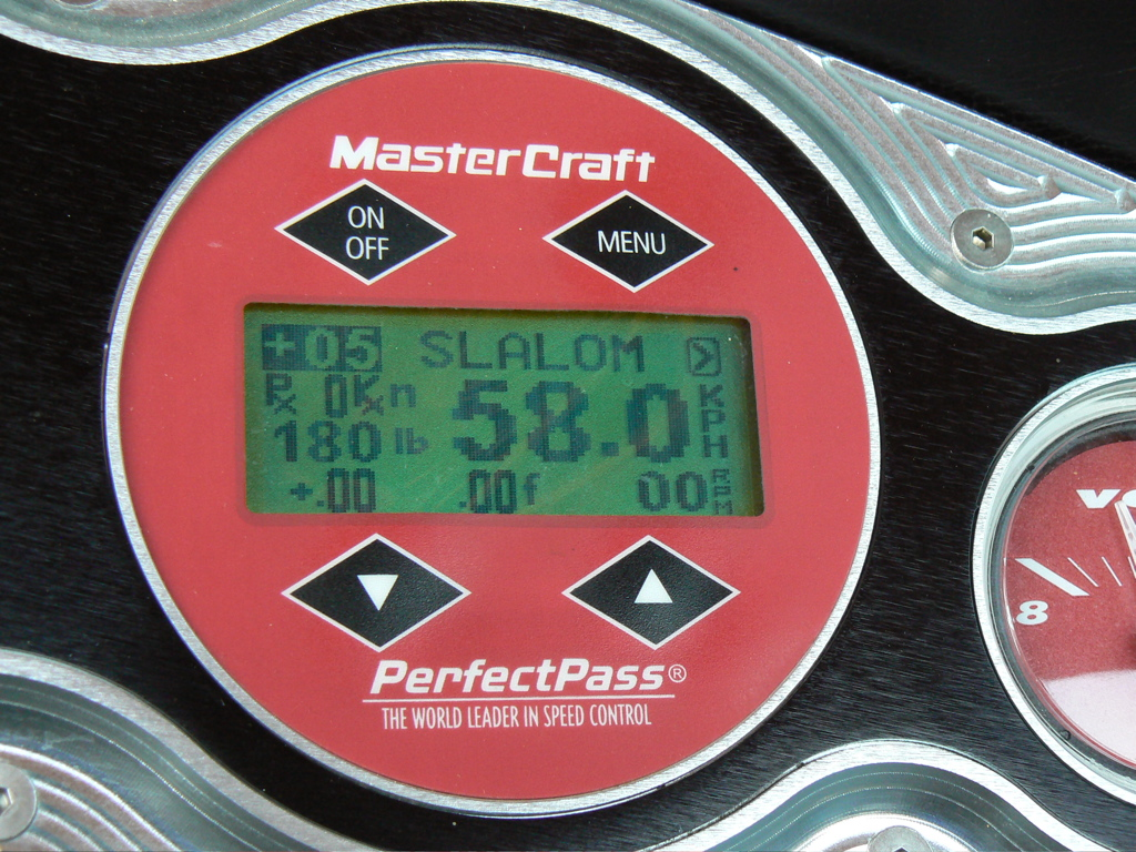 A picture of the 3rd generation of the Perfect Pass system, a water ski boat speed control.